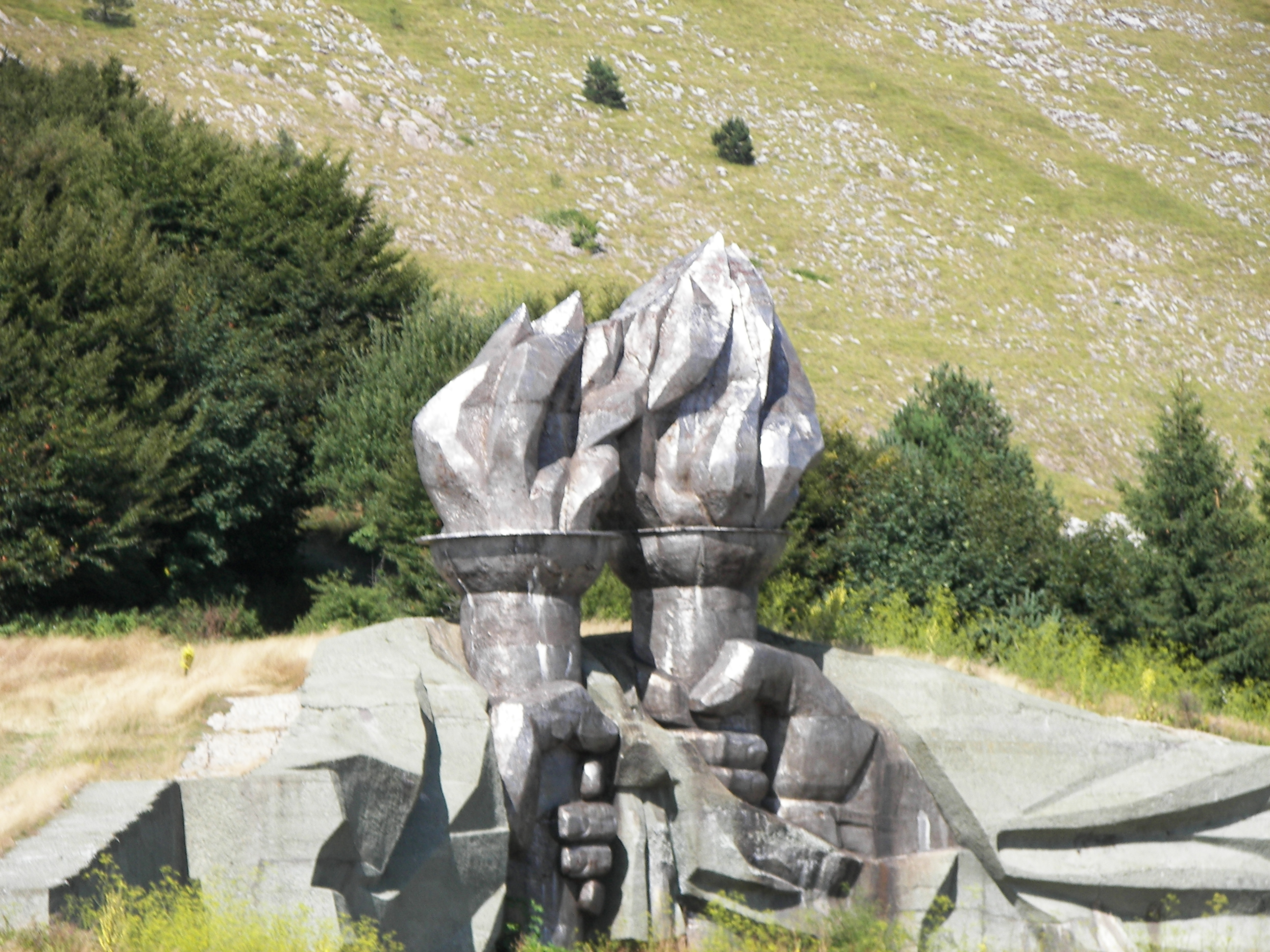 Buzludzha